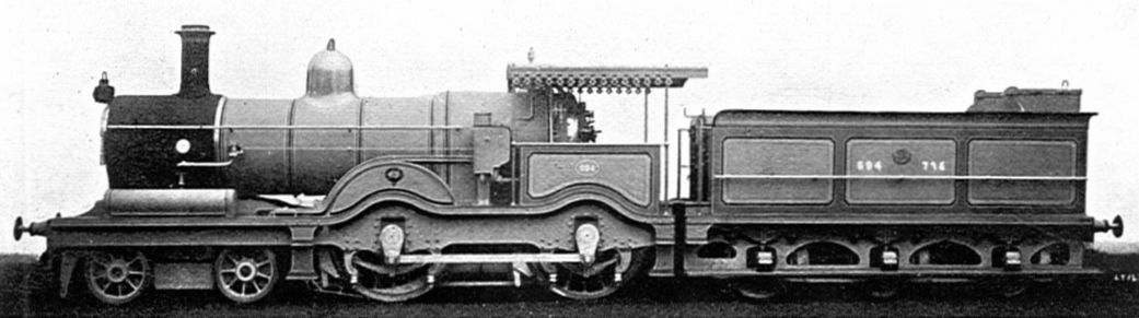 The Cab as a Sun-shade. Egyptian State Railways Express Engine built by the North British Locomotive Works, Glasgow.